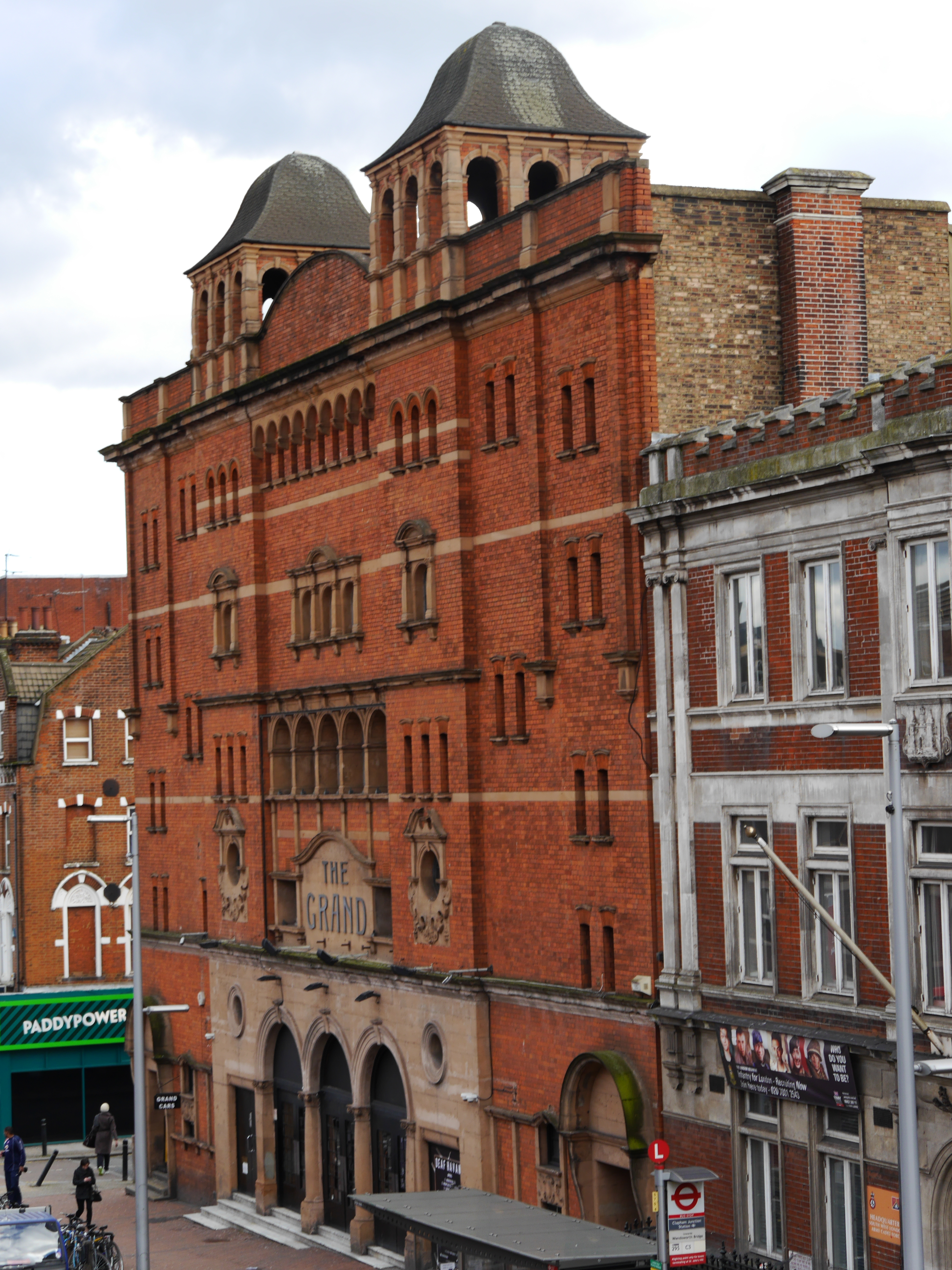 Grand Theatre, Clapham